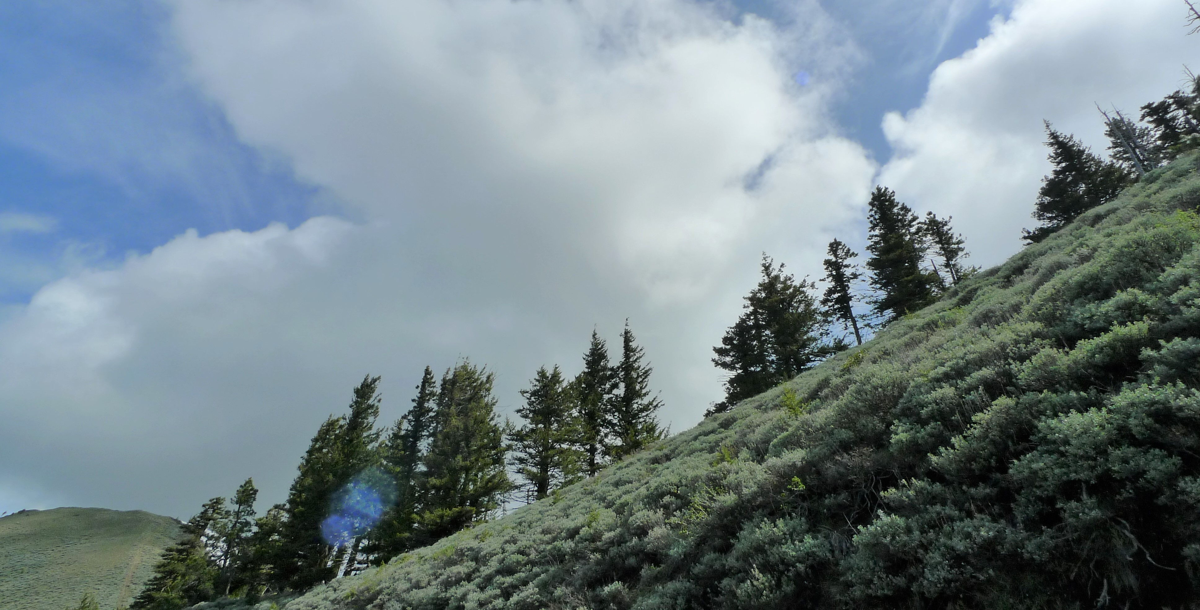 Artemisia tridentata ssp. vaseyana on Chumstick Mountain, Chelan County Washington